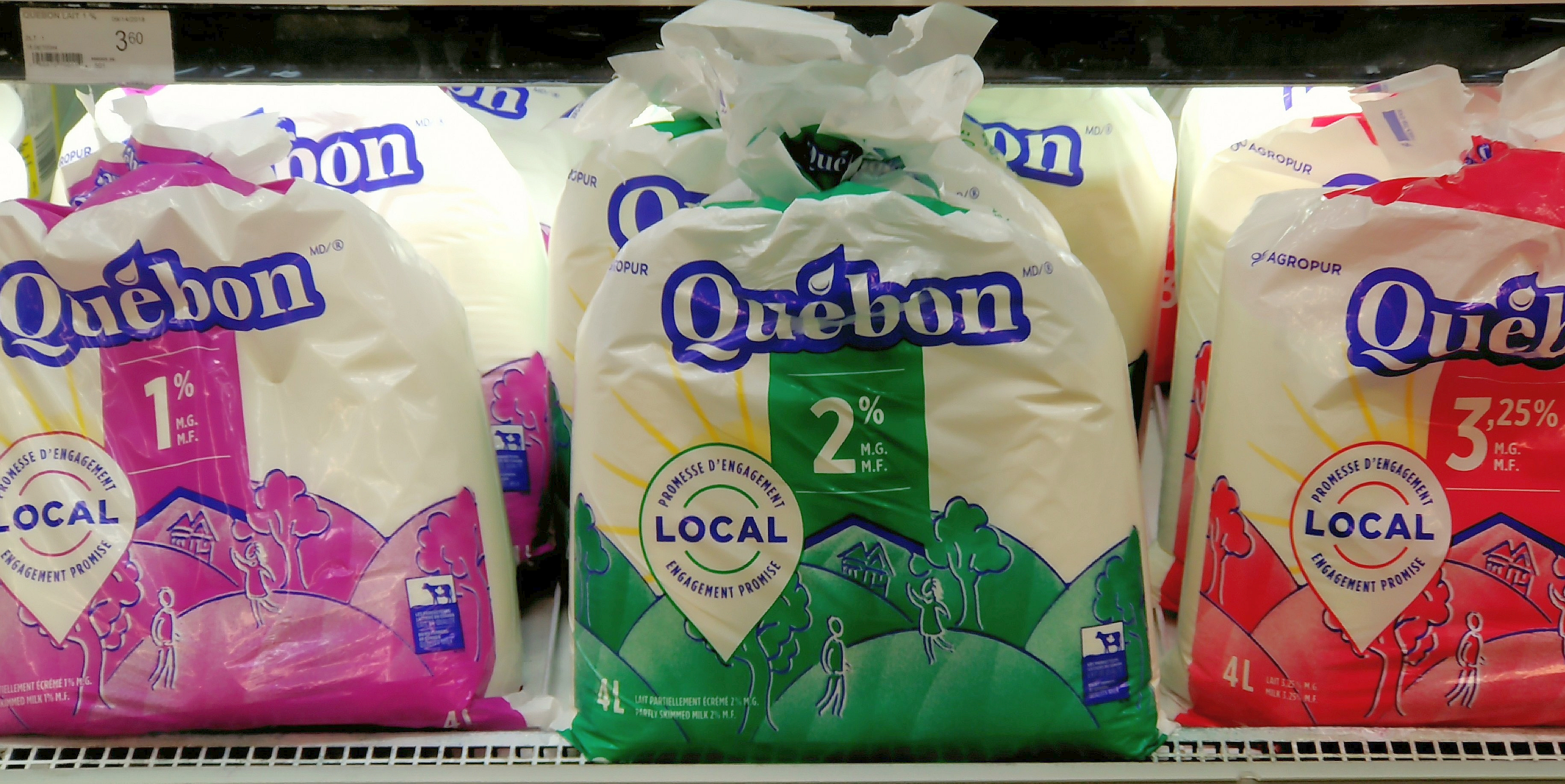 Four litre bagged milk in Quebec.